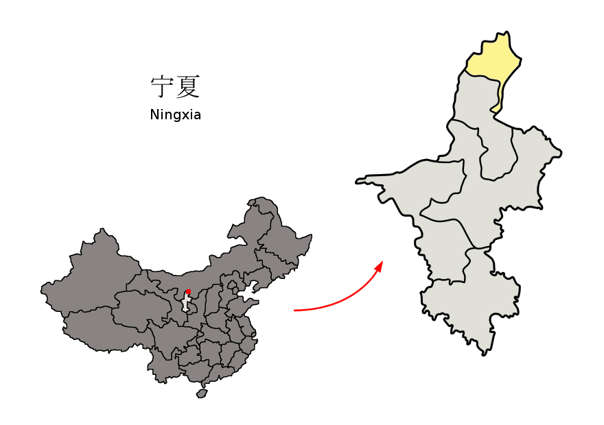 Location of Shizuishan Prefecture (yellow) within Ningxia Autonomous Region of China Map drawn in november 2007 using various sources, mainly : Ningxia Autonomous Region administrative regions GIS data: 1:1M, County level, 1990 Ningxia Counties map from This map includes Zhongwei jurisdiction not shown on sources, and the related changes in Guyuan and Wuzhong jurisdictions borders.